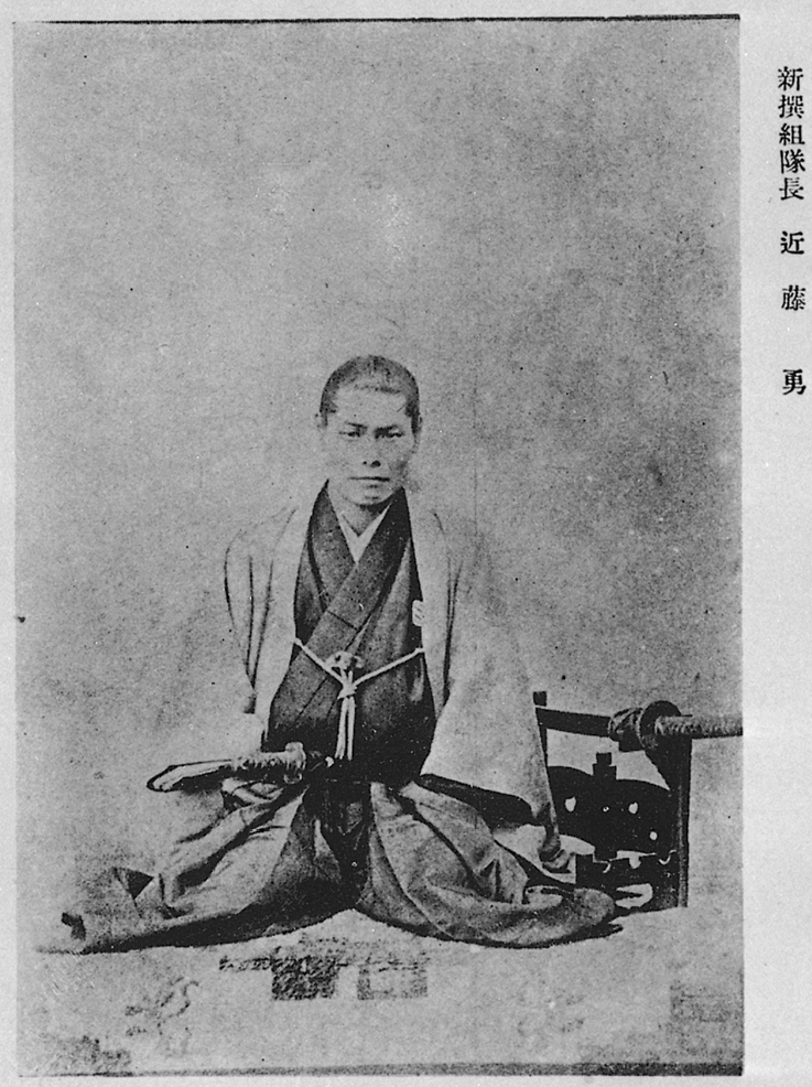 Portrait of Kondo Isami (近藤勇, 1834 – 1868)